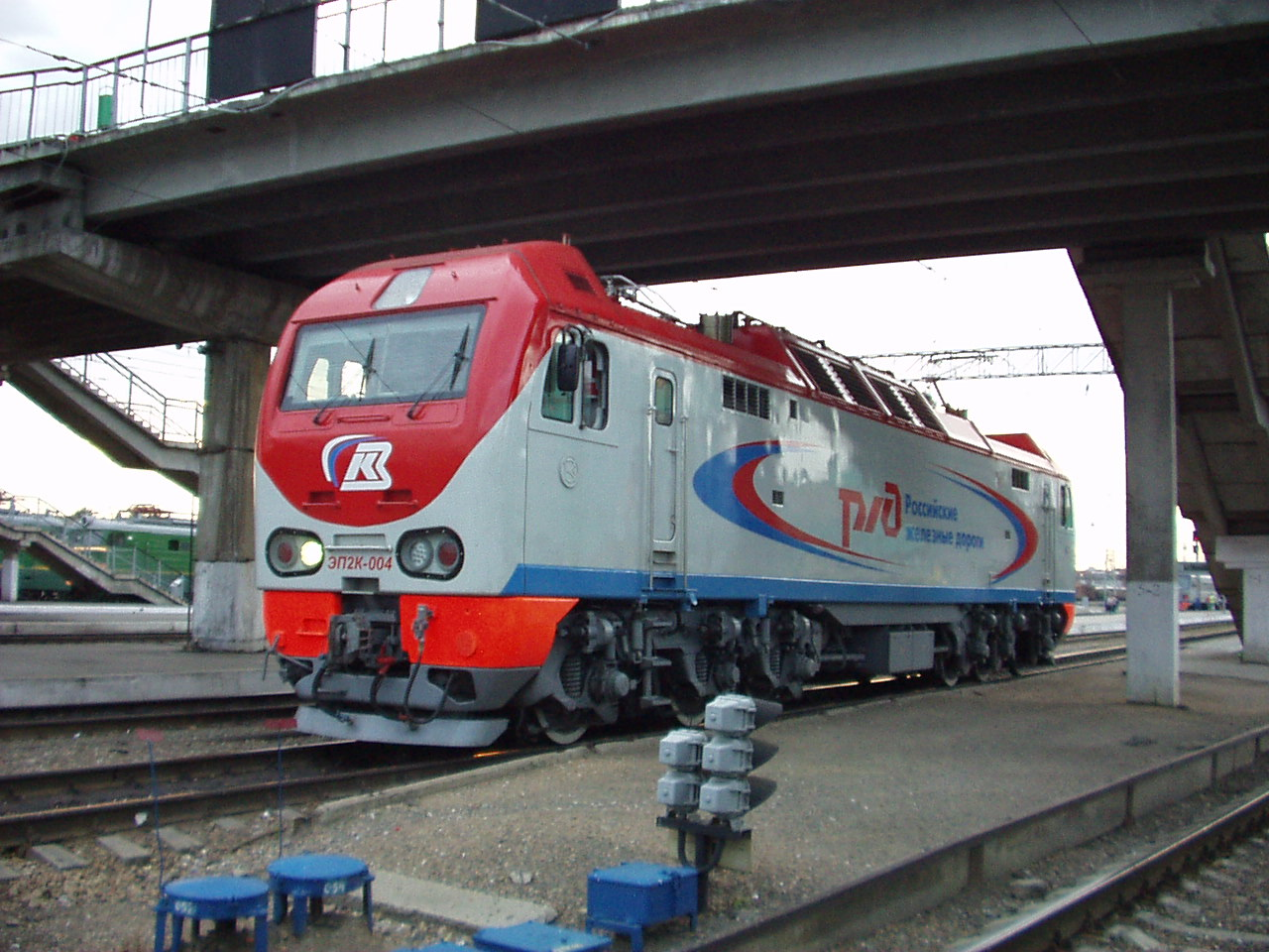 Electric locomotive EP2K-004 at Novosibirsk-Main railway station